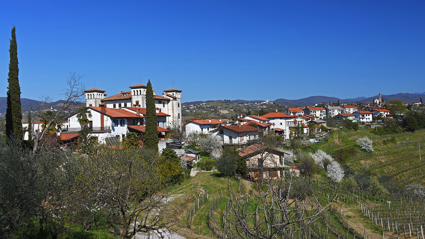 Dobrovo in Brda, on the left is its renaissance castle.